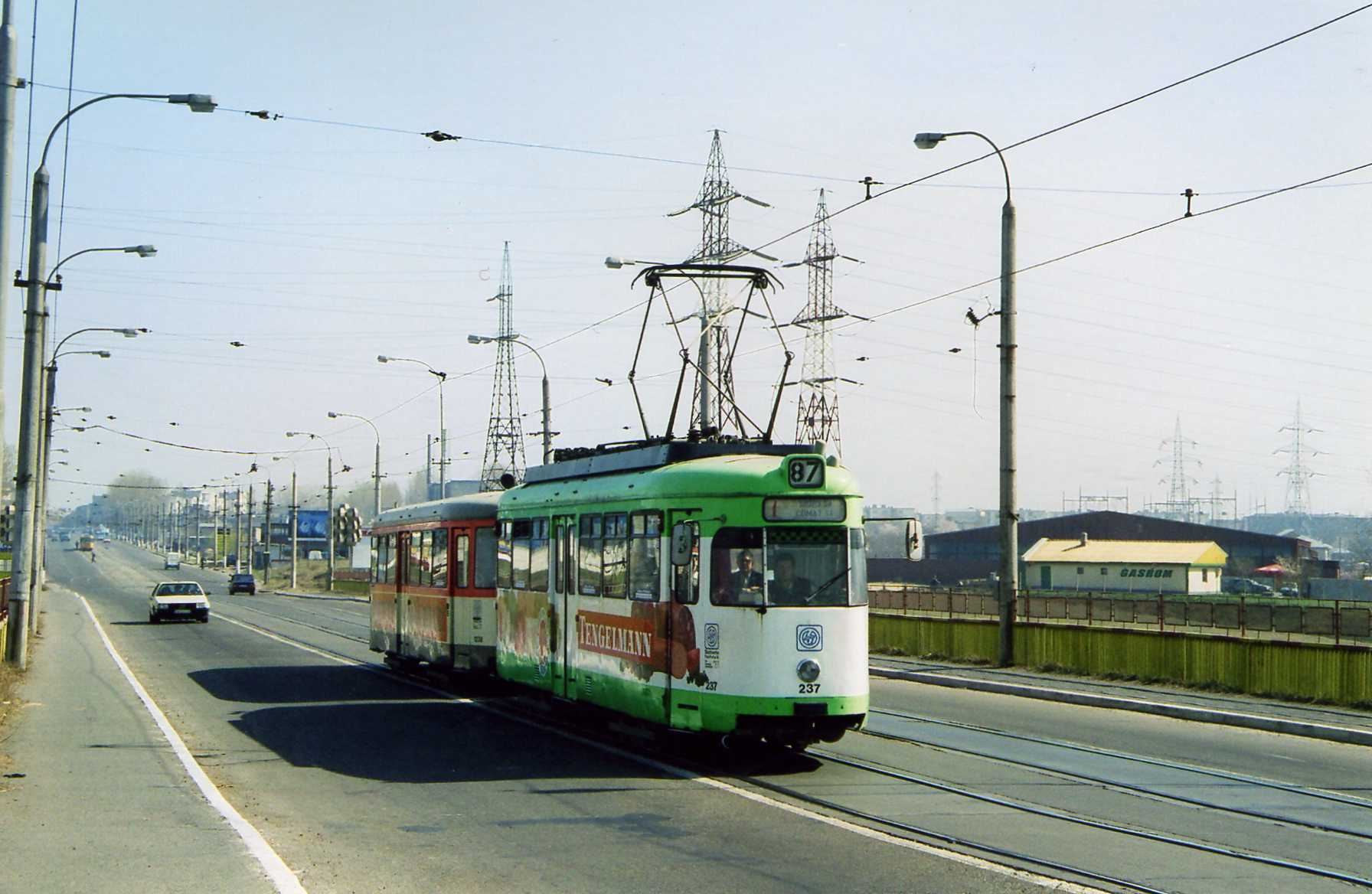 Former Frankfurt am Main Duewag L tram no 237 which became Galati nr 87 (in route box) . One of these ended up as a McDonalds "McTram" restaurant in Galati. Fortunately it had not happened during my stay. Subsequently it has been bequeathed to Chisinau in Moldova. Lovely. Transurb nr 87 was acquired in 1997, becoming 0125 and subsequently 1267 in 2007. The trailers are I type Duewag. The list of the trams from Frankfurt are L / 206 / 84 L / 218 / 85 / 0123 L / 221 / 86 / 0124 L / 237 / 87 / 0125 L / 240 / 88 / 0126 l / 1230 / 324 / 0135 l / 1231 / 325 / 0136 l / 1233 / 326 / 0137 l / 1238 / 327 / 0138